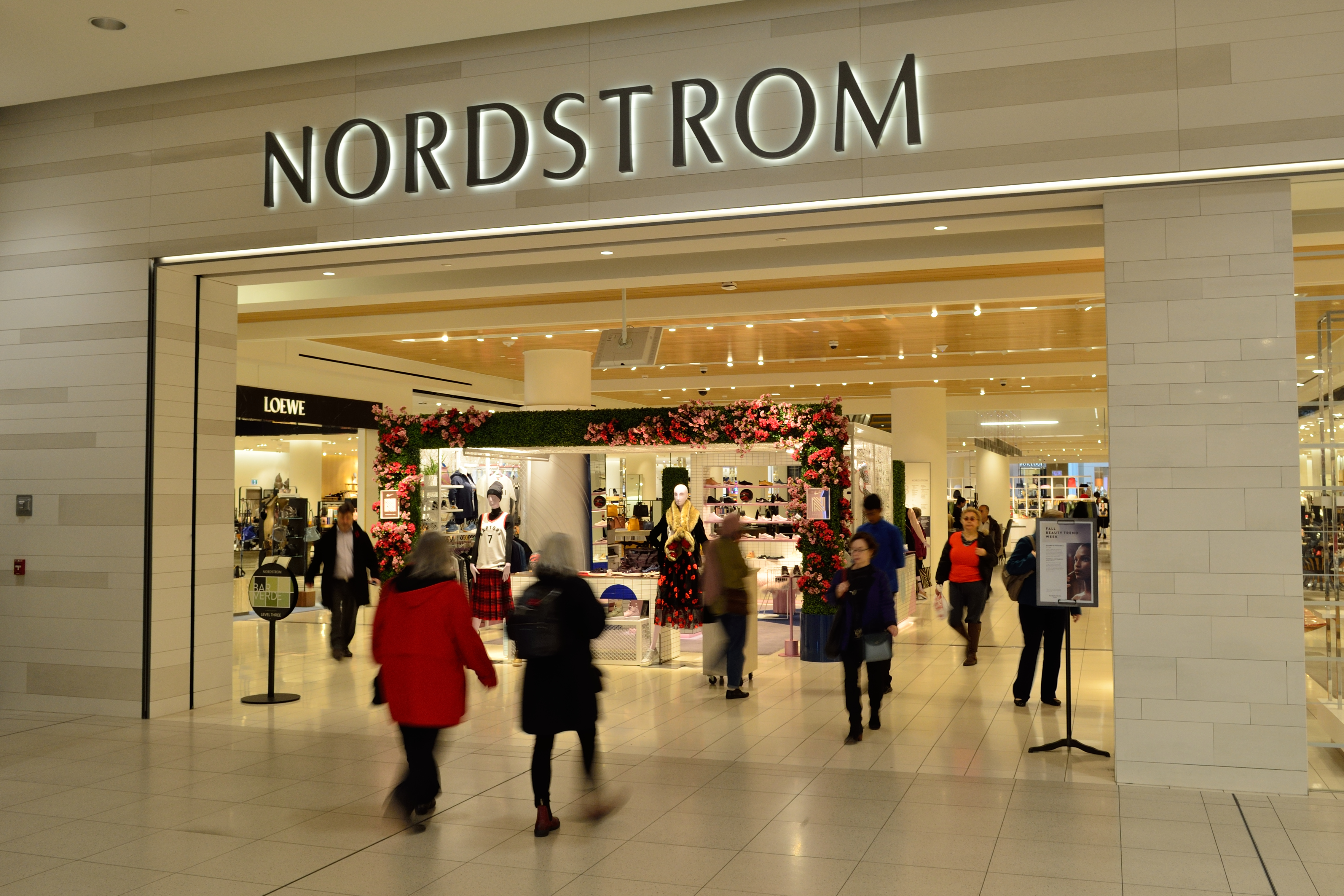 Nordstrom at Toronto Eaton Center